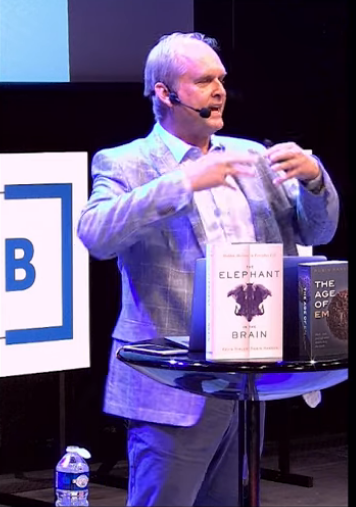 Video caption: "Most ancient societies used simple A-sues-B-for-cash legal systems to deal with most harms. But in the last few centuries, states added “crime law”, wherein the state investigates, sues, and imprisons “criminals.” These centrally-run one-size-fits-all bureaucratic systems don’t innovate well nor adapt well to individual conditions. And even though most of your “constitutional rights” are regarding such systems, they still seem badly broken. In the ancient world, a stranger who came to town was trusted more if a local “vouched” for them. We still use vouching today in bonded contractors, in organized crime, and in requiring most everyone to get an insurer who pays on their behalf if they cause a car accident. I propose requiring everyone to get an insurer to vouch for them regarding any crimes they might commit. If you are found guilty of a crime, your “voucher” pays the state a fine, and then pays to punish you according to your contract with them. This fine in part pays the private bounty-hunter who convinced the court of your guilt. Competing bounty-hunters obey law because they can’t maintain a blue-wall-of-silence. To lower your voucher premiums, you might agree to (1) prison, torture, or exile, if caught, (2) prior limits on your freedom like curfews, ankle bracelets, and their reading your emails, and (3) co-liability wherein you and your buddies are all punished if any one of you is found guilty. In this system, the state still decides what behaviors are crimes and if any one accusation is true, and it sets fine and bounty levels regarding how hard to discourage and detect each kind of crime. But each person chooses their own “constitutional rights”, and vouchers acquire incentives and opportunity to innovate and adapt, by searching in a large space of ways to discourage crime."